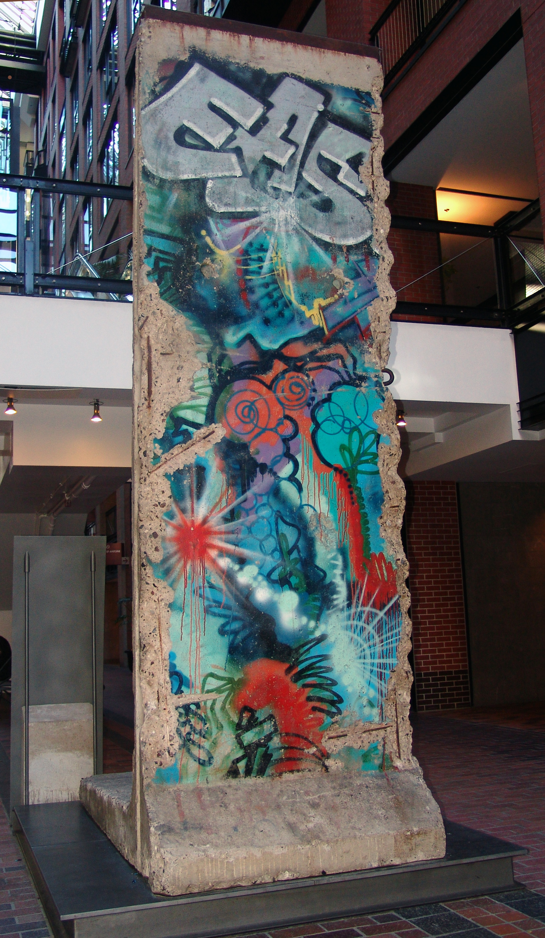 Western side of the Montréal portion of the Berlin Wall at Centre de Commerce Mondial. I took the picture.